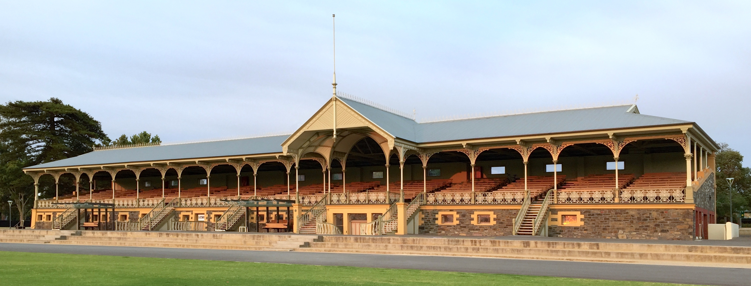 Grandstand of the former Victoria Park Racecourse, Adelaide -- three-quarters view. The racecourse has been re-purposed for cycling, motor sport, equestrian events and other activities but the granstand has been retained